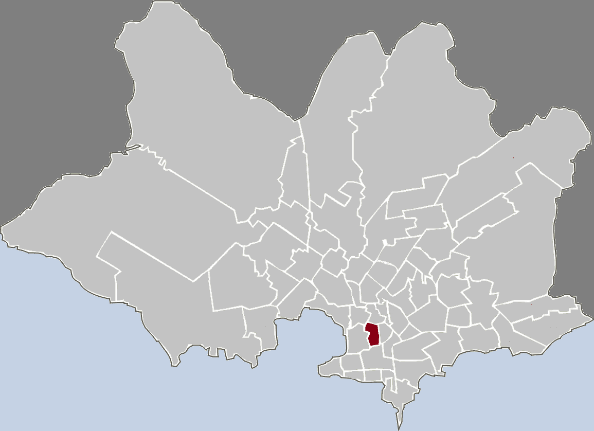 Map highlighting the given barrio in Montevideo.